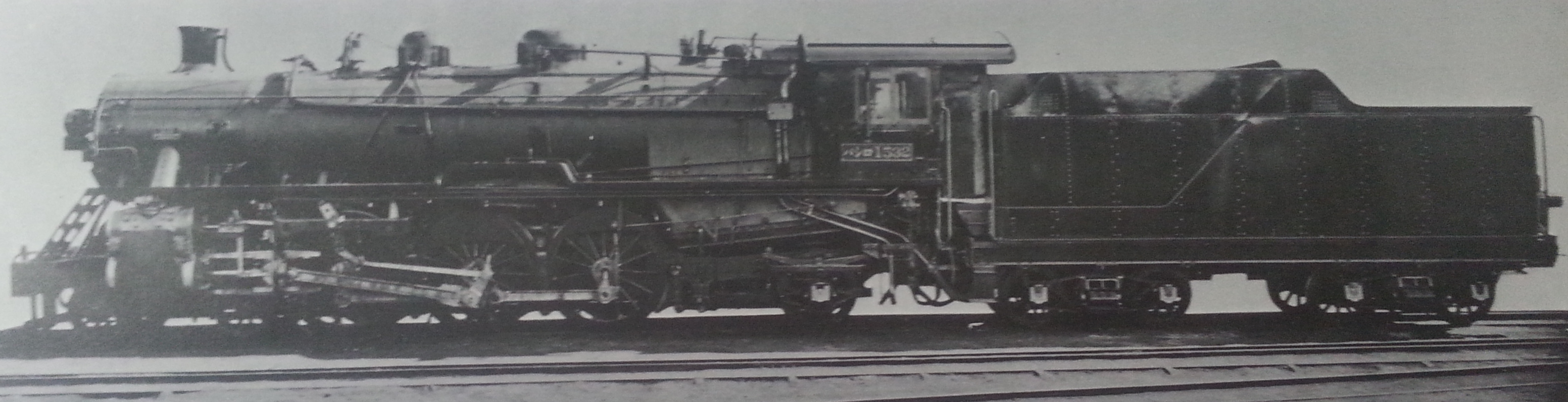 Builder's photo of North China Transportation Co. locomotive Pashiro 1532.